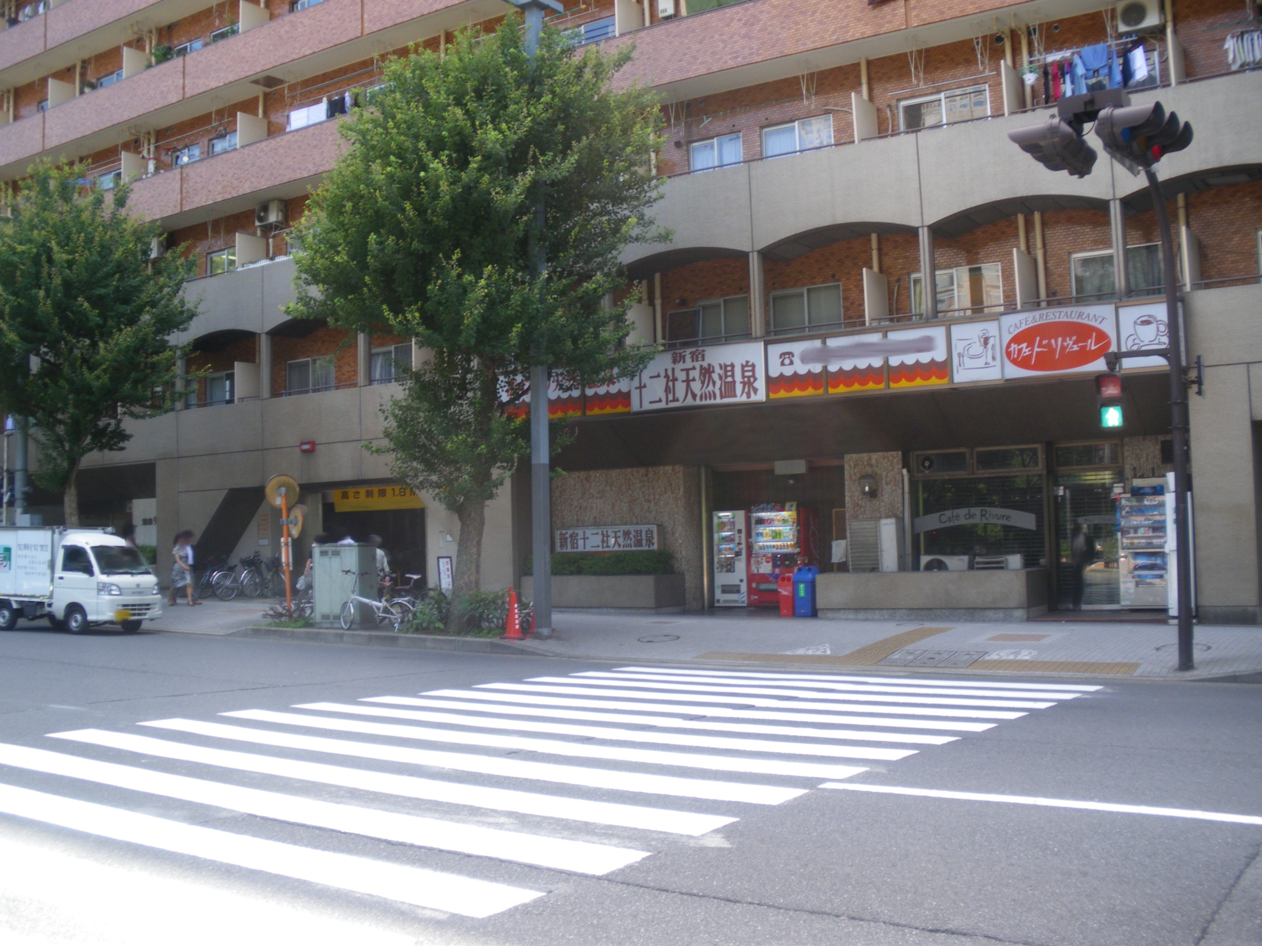 A photo of Shinjuku 12so hot spring,Nishishinjuku,Shinjuku-ku,Tokyo,Japan.